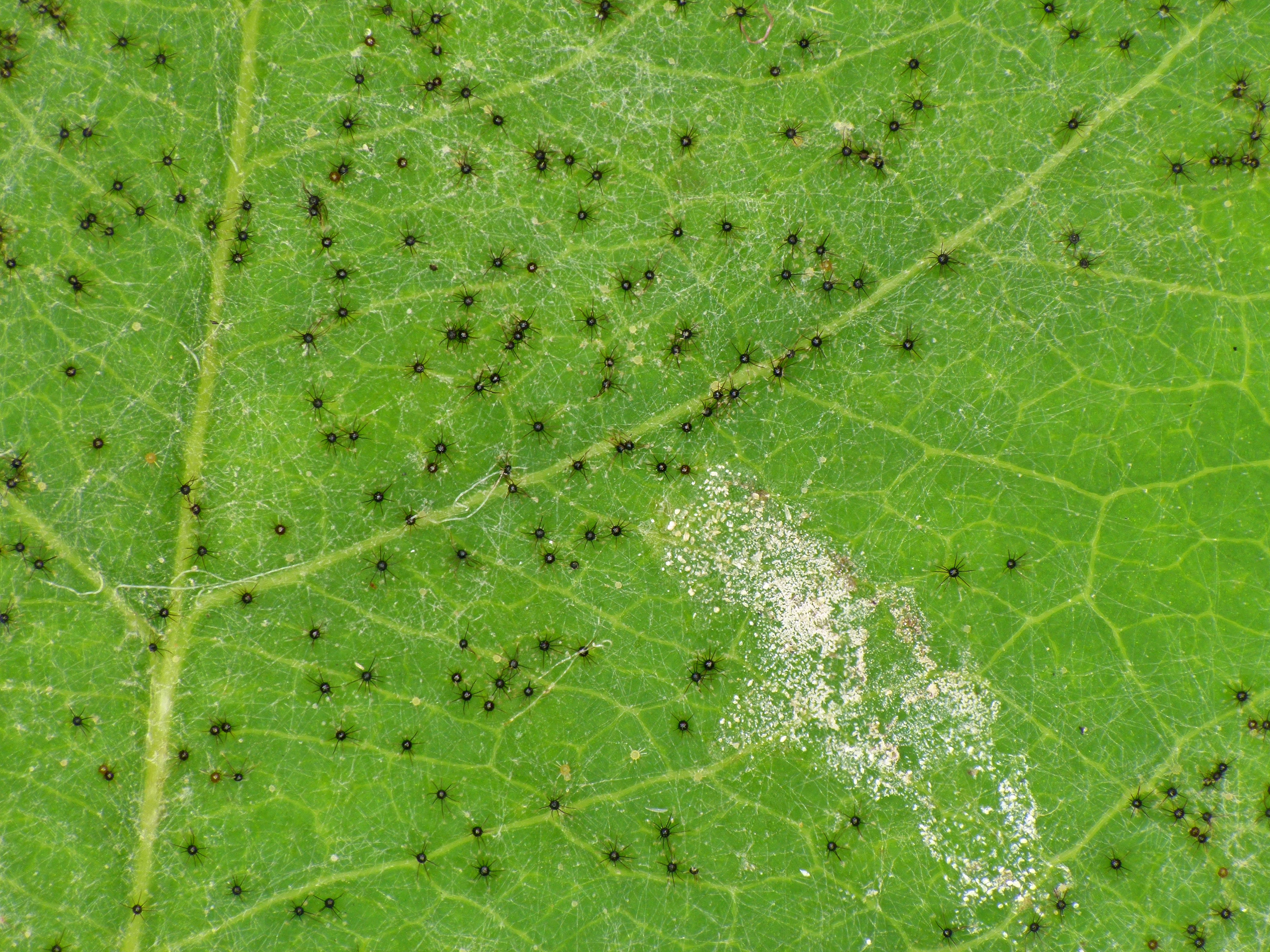 Powdery mildew on a leaf of Amelanchier also known as shadbush, shadwood or shadblow, serviceberry or sarvisberry, juneberry, saskatoon, sugarplum or wild-plum, and chuckley pear